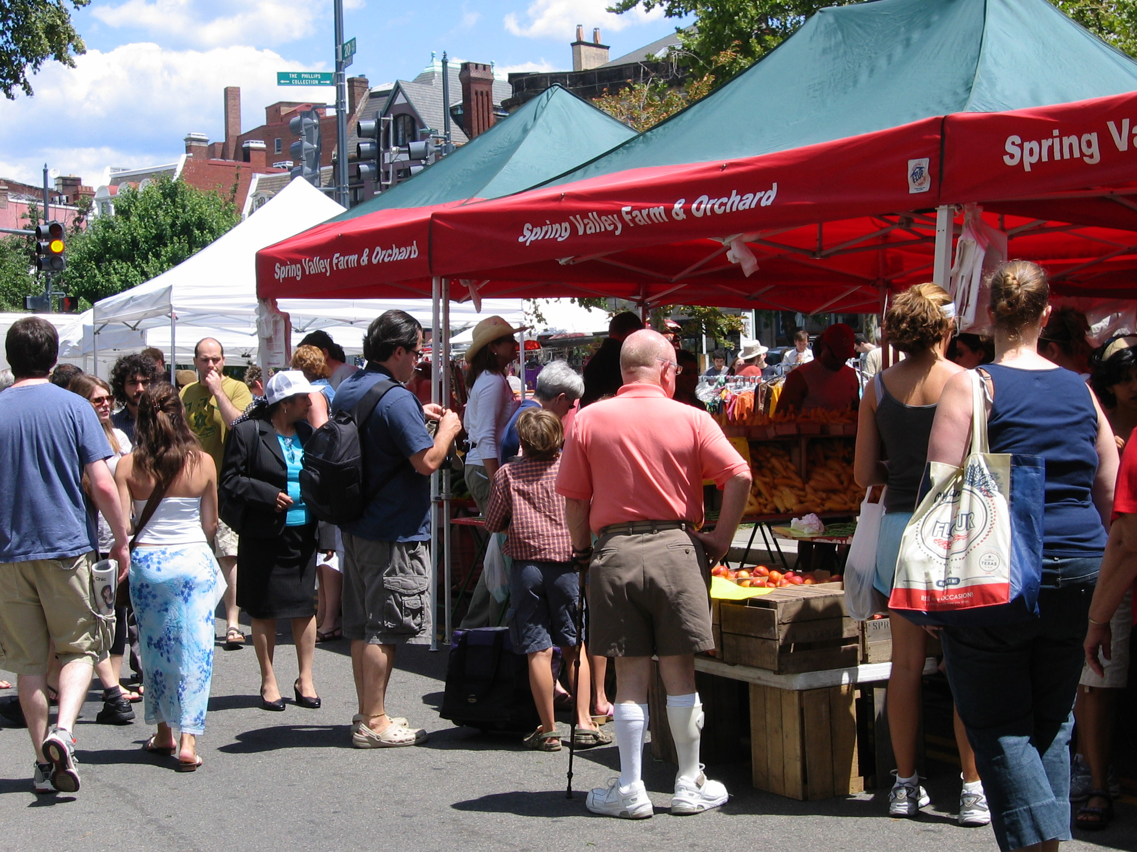 Dupont Circle farmers market, held every Sunday morning.